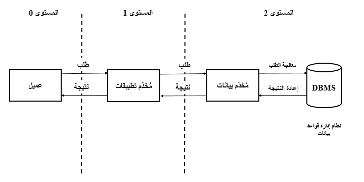 3-tier client/server model architecture.